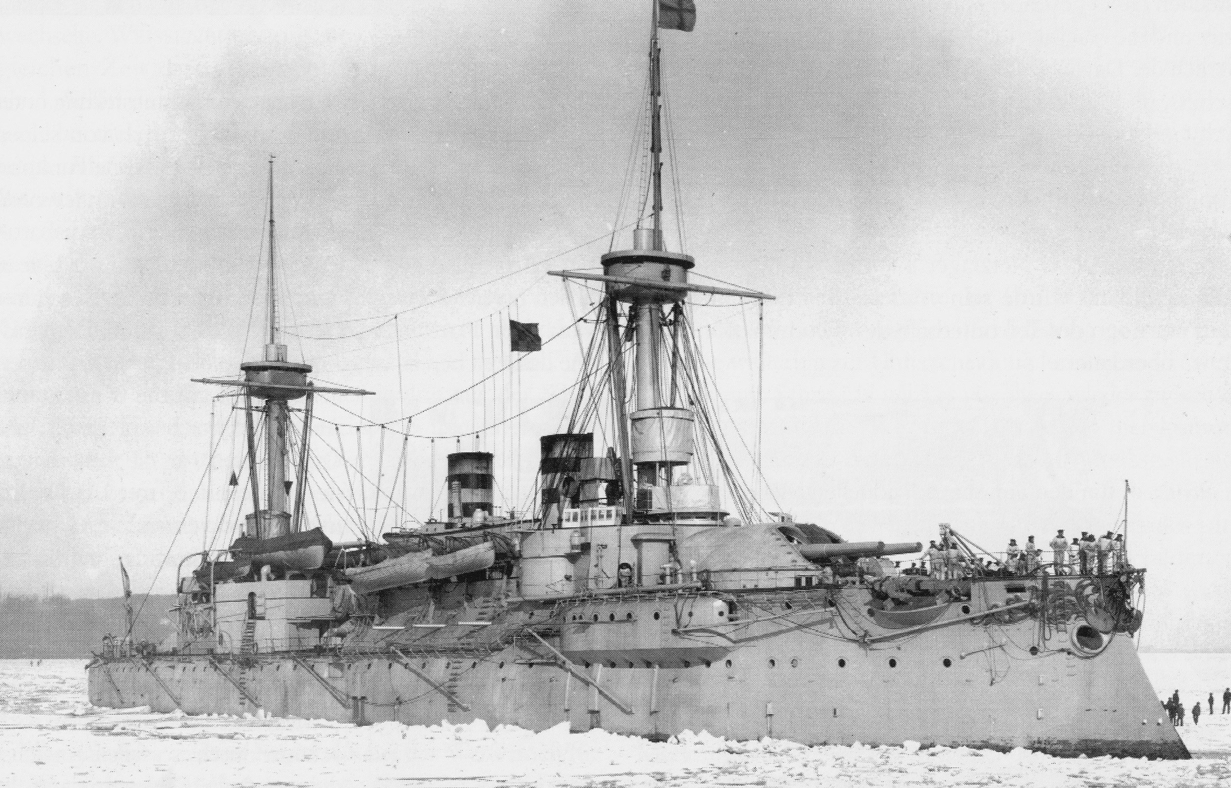 The German battleship SMS Wörth.